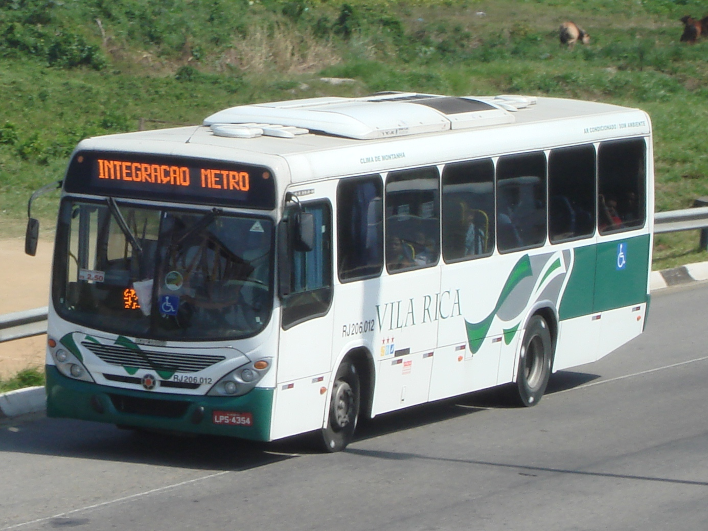 Marcopolo Torino bus (reg. LPS-4354, #RJ 206.012) with unknown chassis in Rio de Janeiro, Brazil. Vila Rica operator.